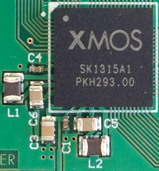 An xCORE XS1-AnA processor with support logic